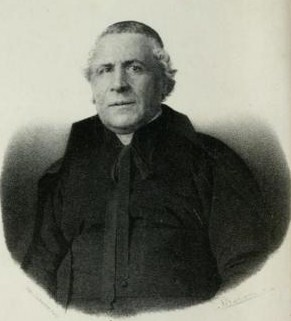 Sicilian Roman Catholic pulpit orator, patriot, philosopher and writer.